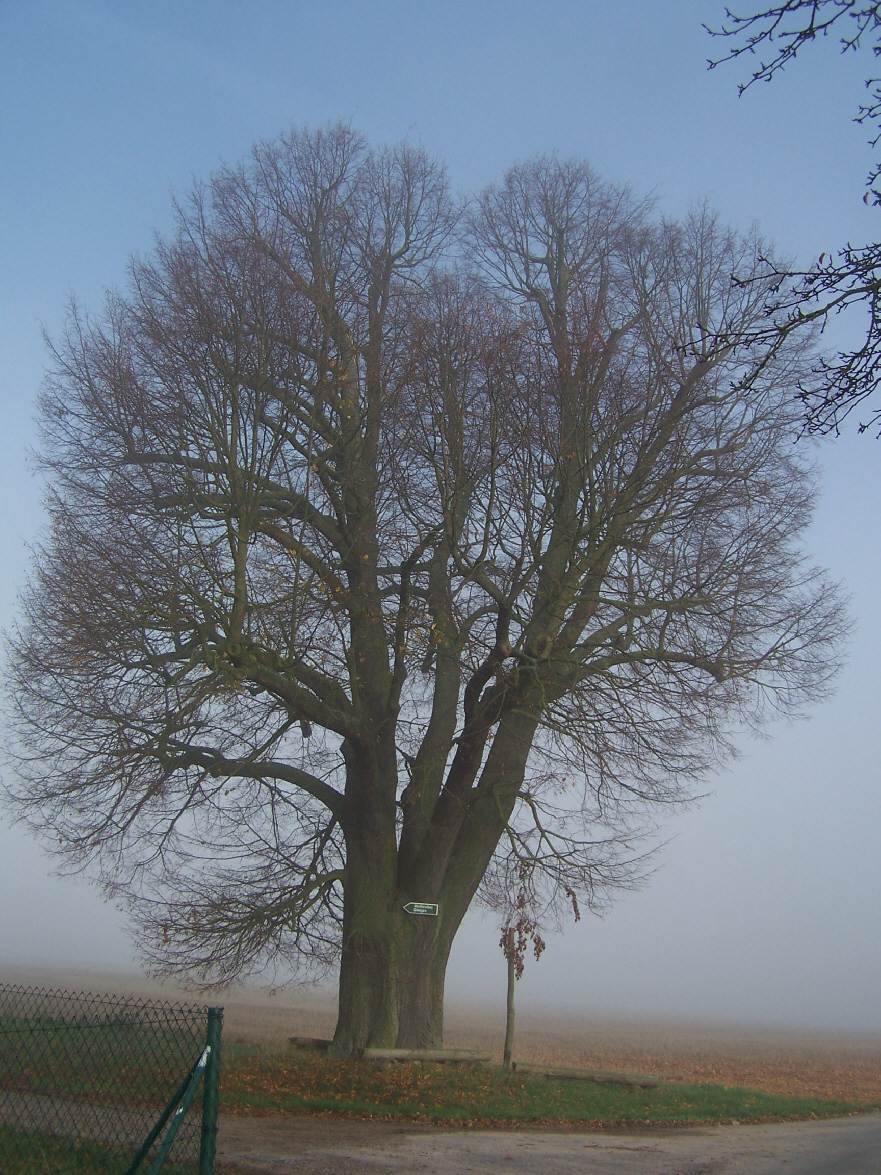 The linden-tree at Hetzeberg.